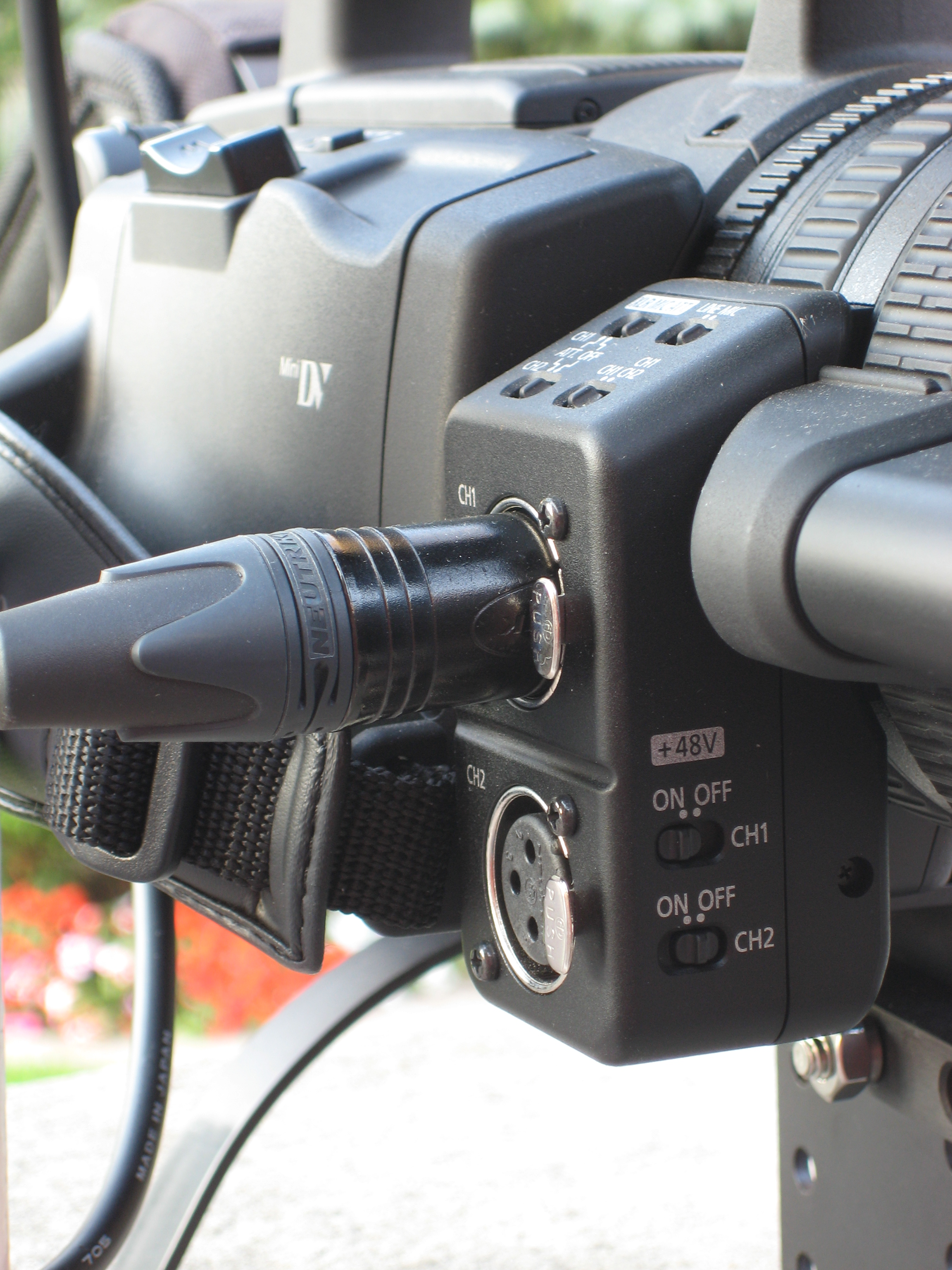 Canon XH-A1 showing 2 channels of XLR audio with a number of features present through physical slide button settings.